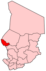 Map of Chad showing Lac region.